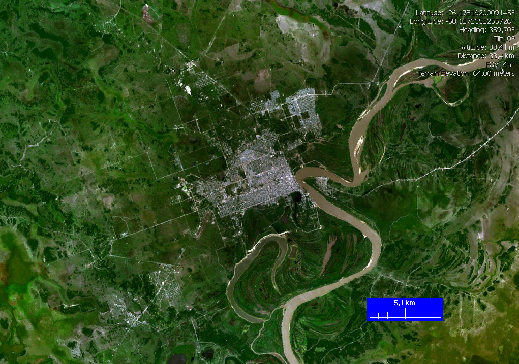 Formosa, Argentina, from the space.